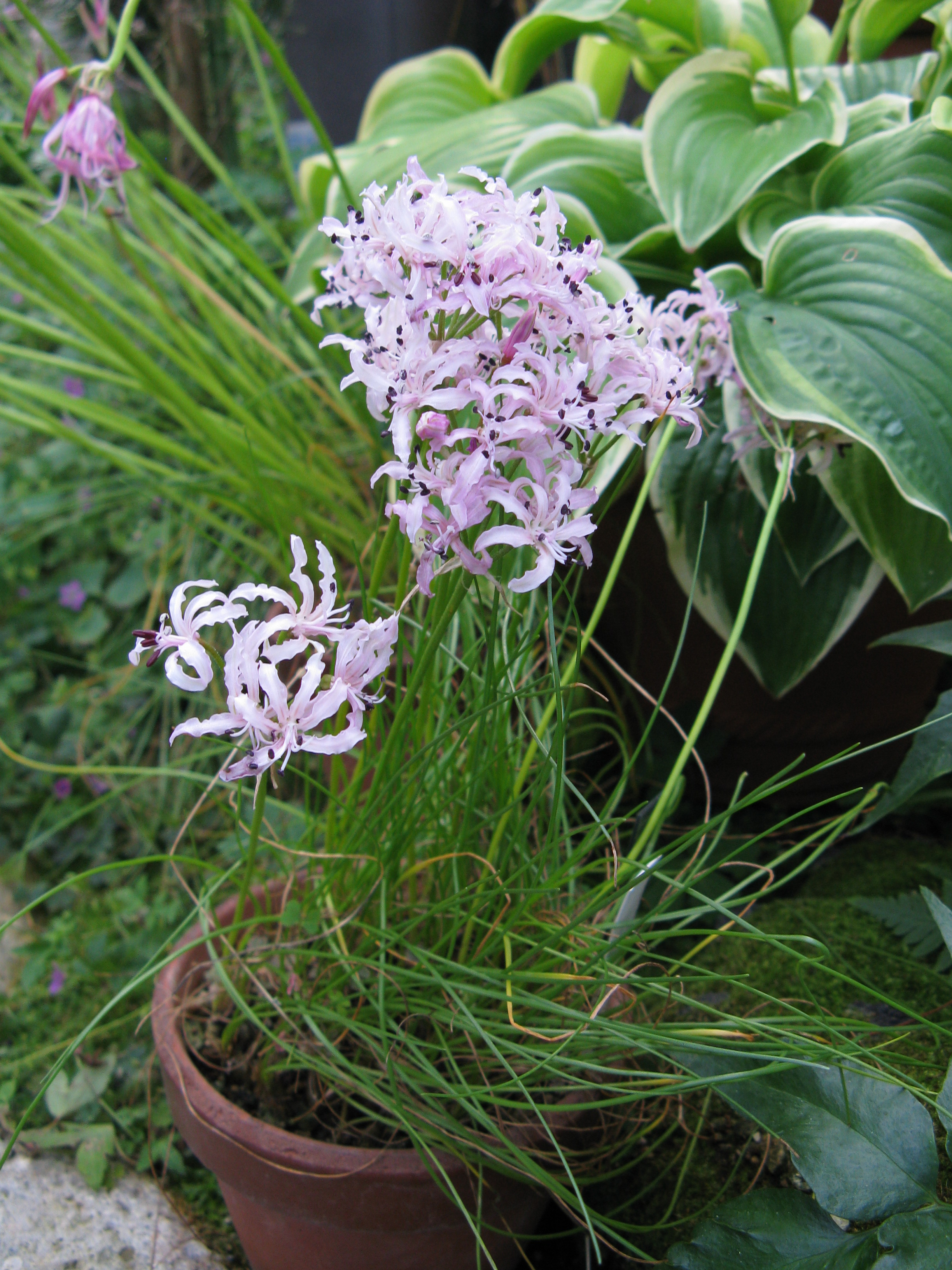 Scientific name Nerine masonorum Place:Osaka Prefectural Flower Garden,Osaka,Japan